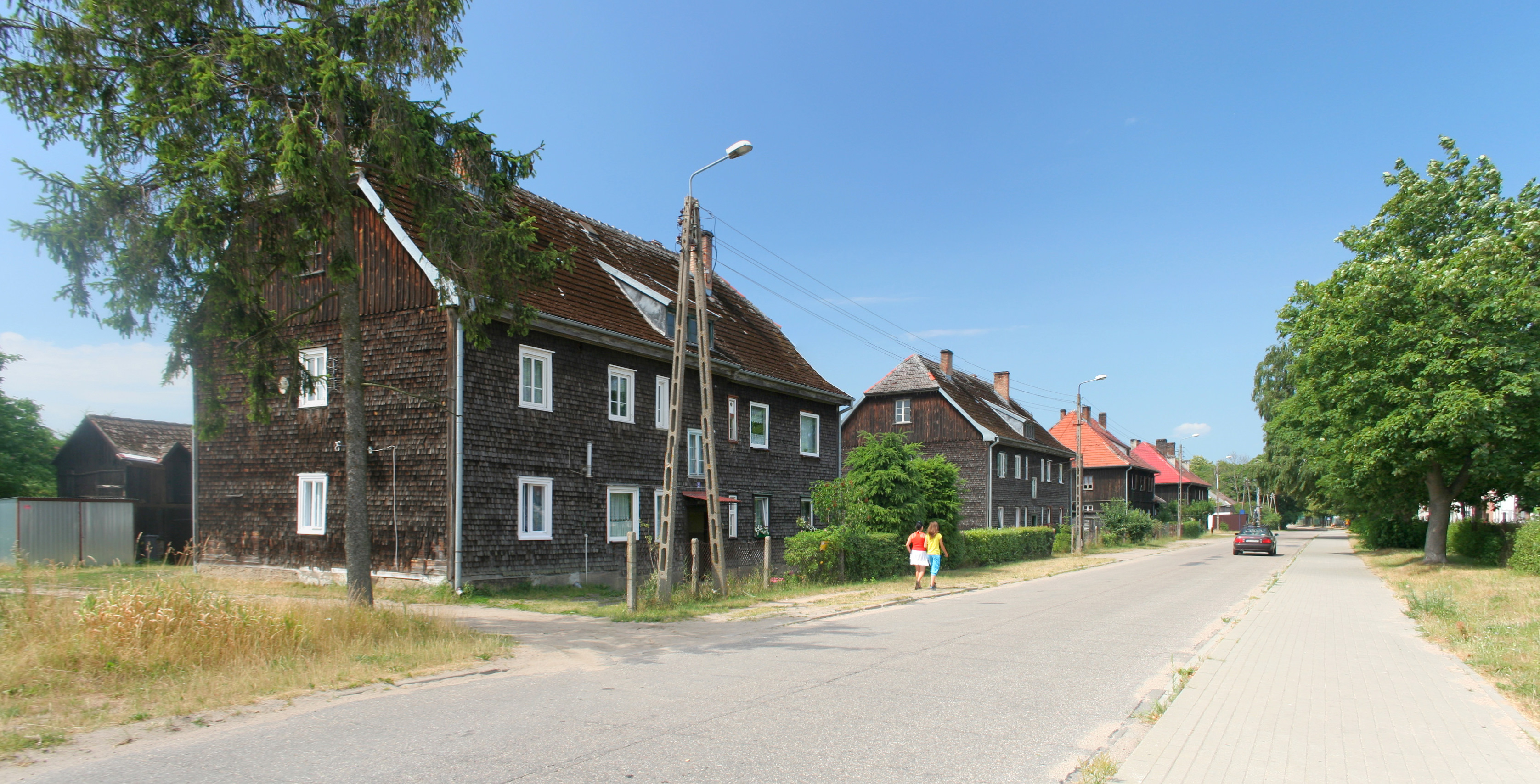 Houses in Bożepole Wielkie.